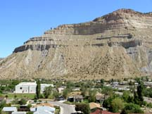 Book Cliffs, Spring Canyon Member, Taken from above Helper, Utah (David Mackie) May 2006 Book Cliffs, Spring Canyon Member, Taken from above Helper, Utah (David Mackie) May 2006